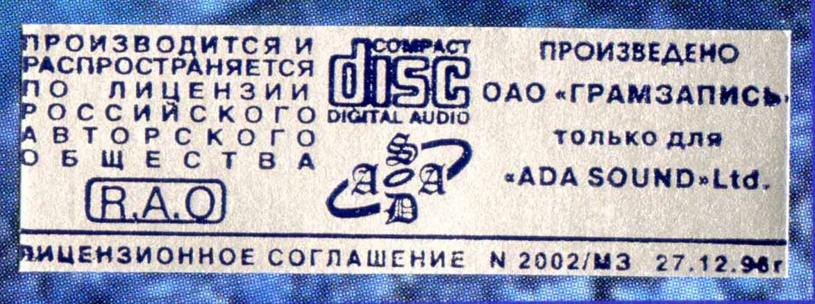 Excise CD stamp of Russia (Russian Copyright Protection Society, RAO), 1997. Such stamps were glued on the title side of the CD. From audio CD of Moody Blues group, 1997.